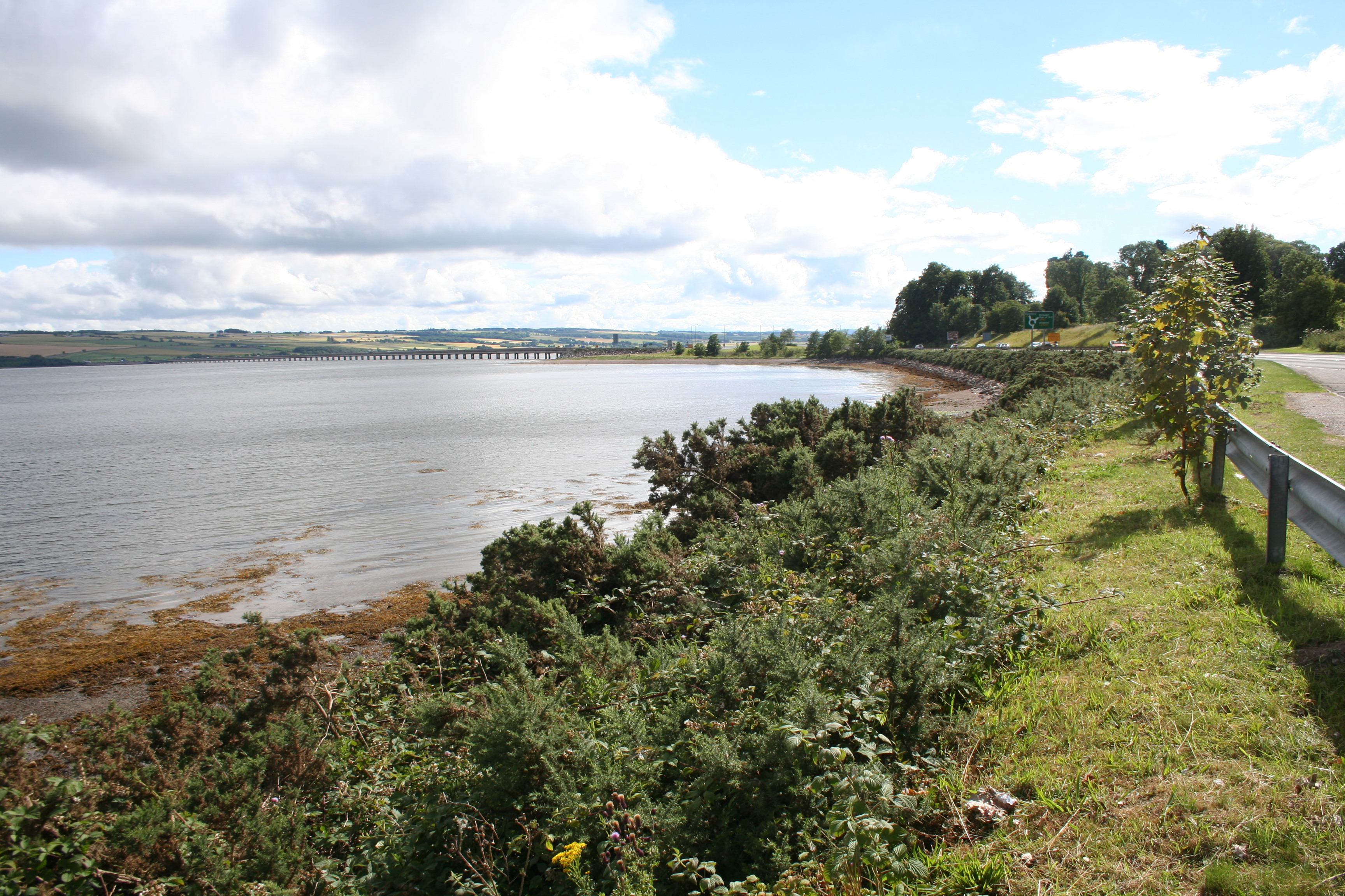 Ardullie Point, near to Ardullie, Highland, Great Britain. The sweep of the Cromarty Firth shoreline towards Ardullie and the road across the firth.